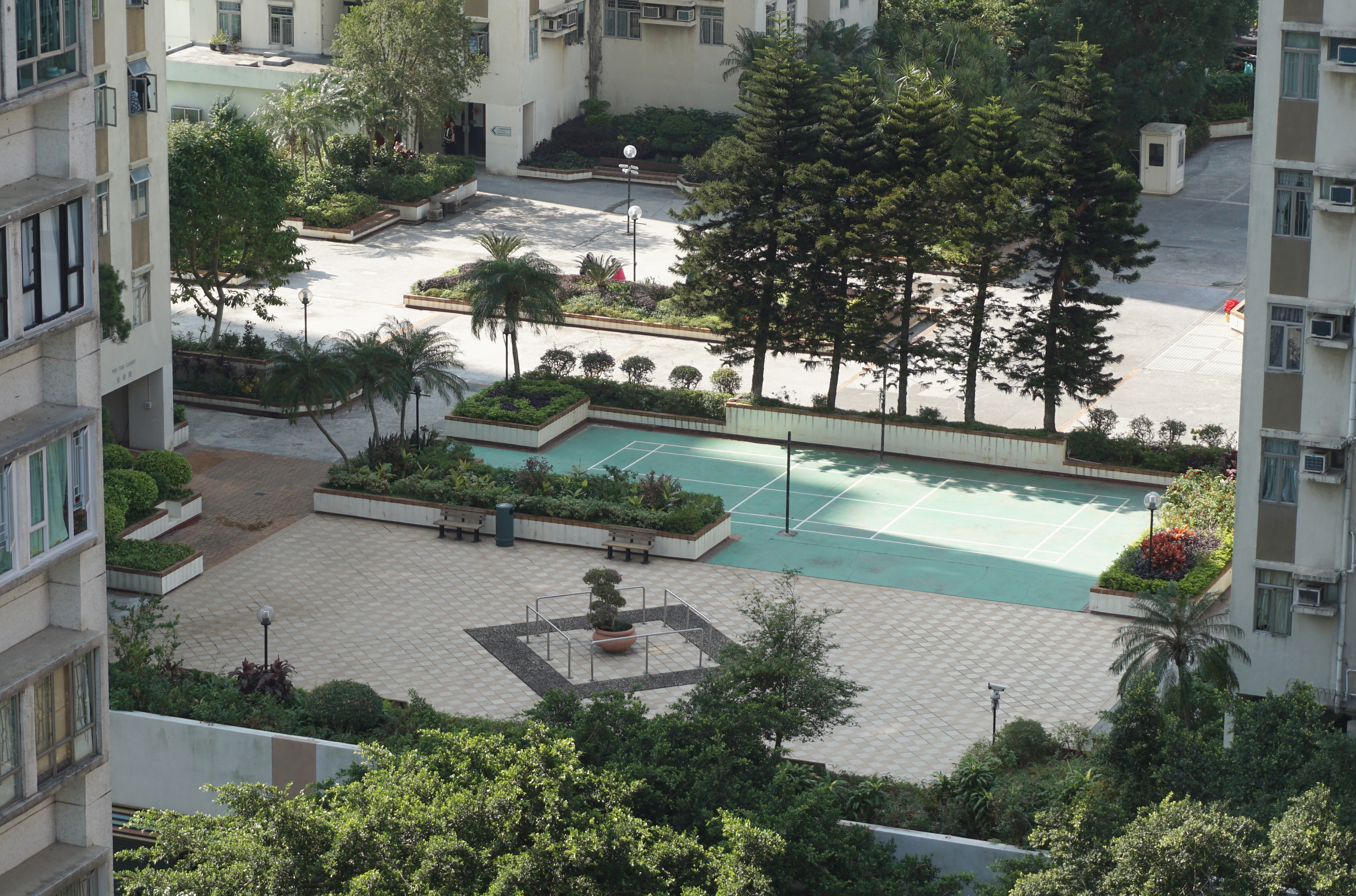 Tai Po Plaza in Tai Po, Hong Kong.